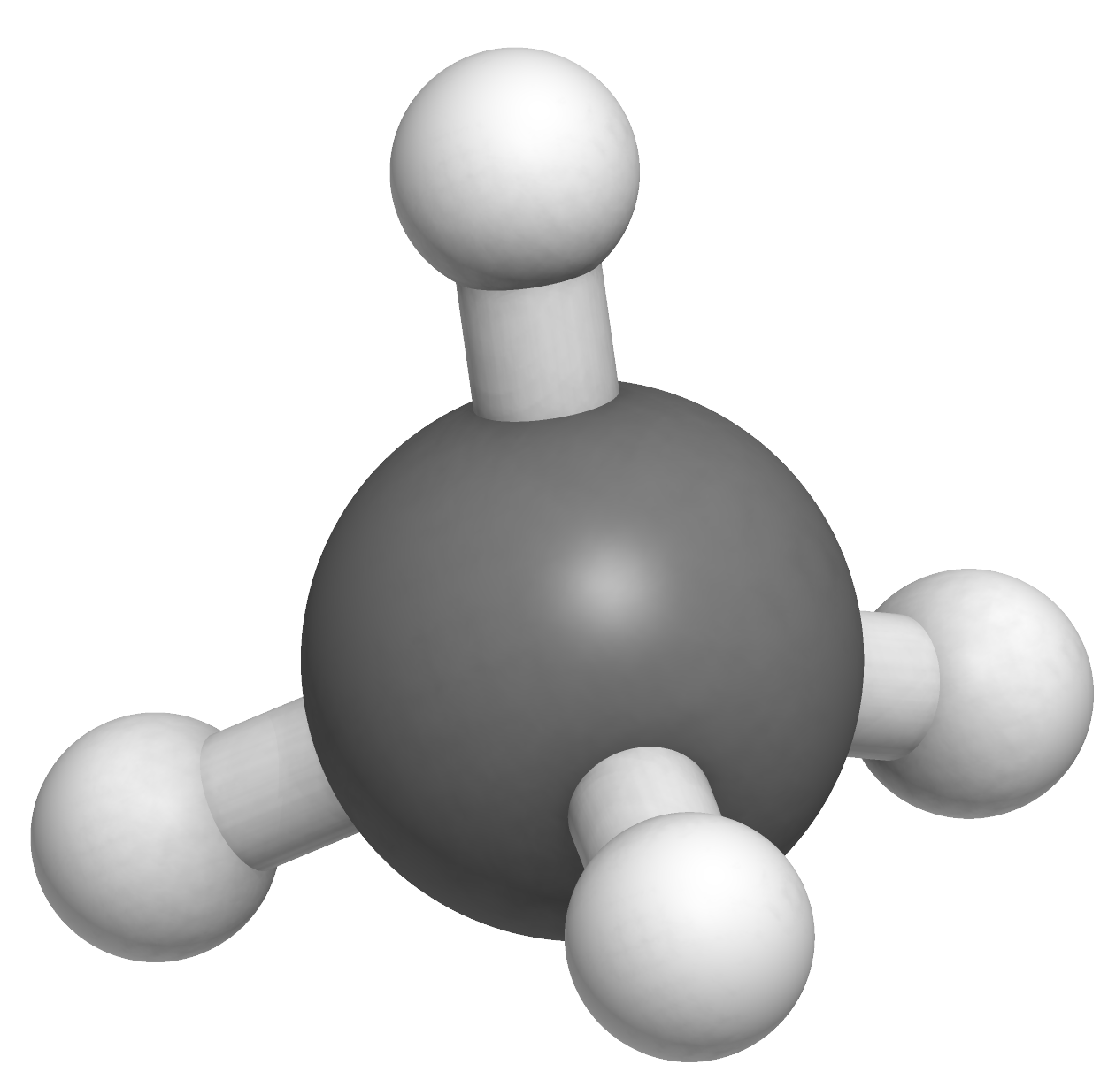 3D model of a methane molecule.